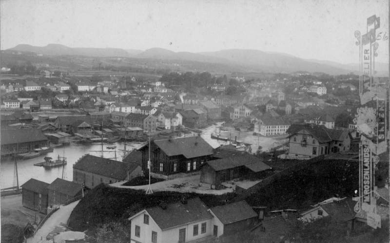 Skien before the great fire in 1886.